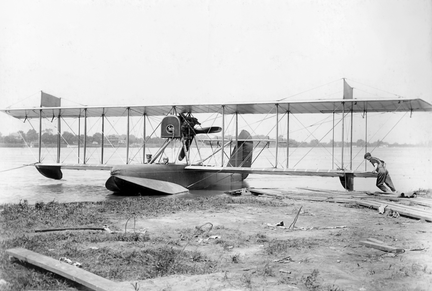 A U.S. Navy Navy officer and a civilian pilot seated in the cockpit of an HS-1 flying boat manufactured Curtiss Aeroplane and Motor Company, Inc.